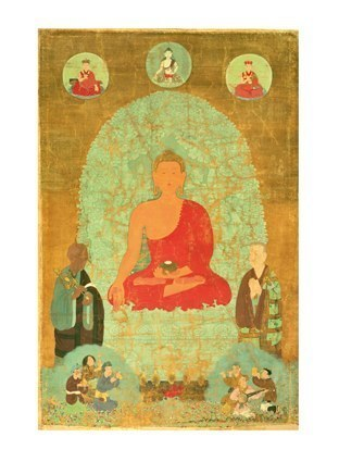 Buddha Sakyamuni by the Tenth Karmapa Chöying Dorje. Distemper on silk. 64 x 51 cm.